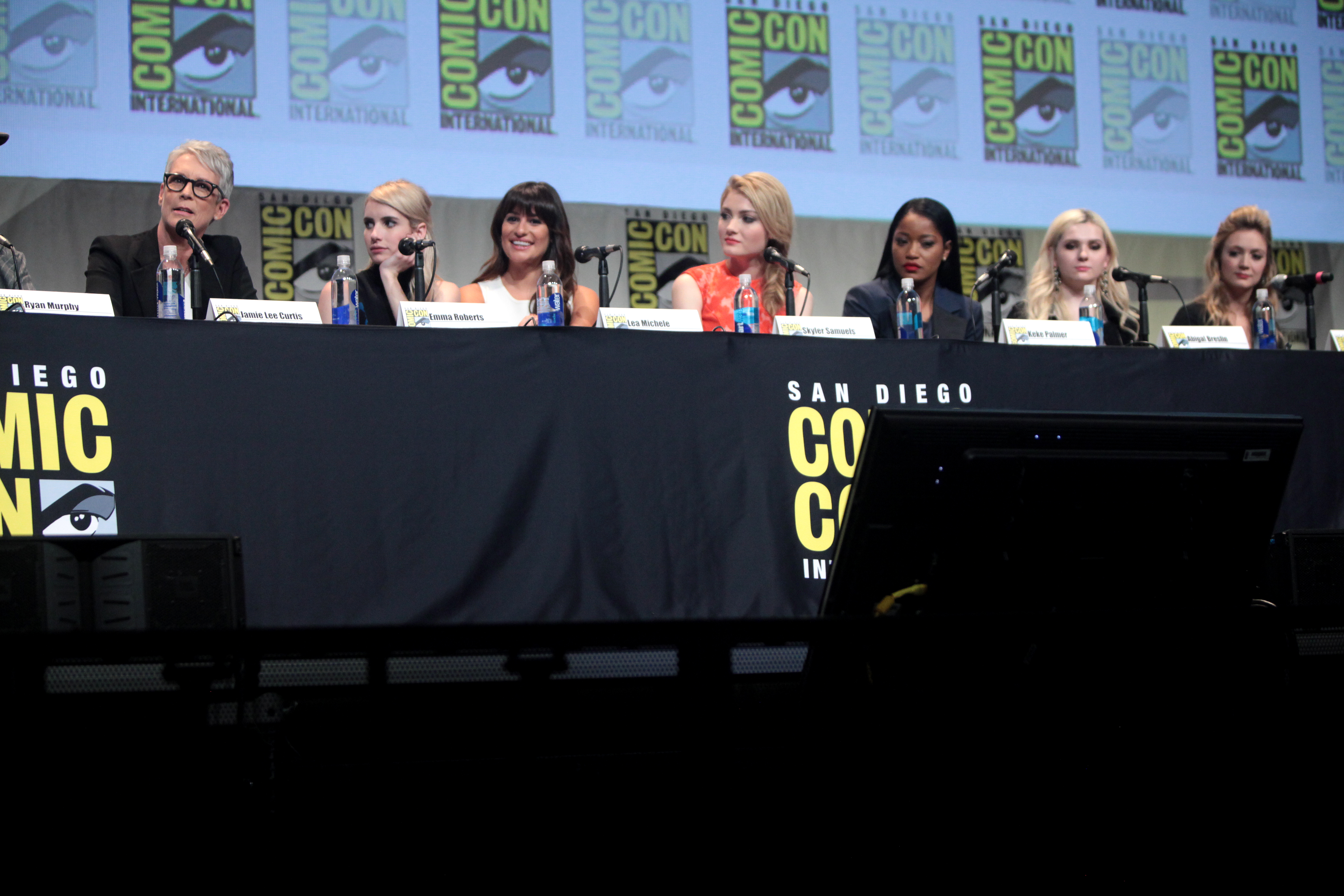 Jamie Lee Curtis, Emma Roberts, Lea Michele, Skyler Samuels, Keke Palmer, Abigail Breslin and Billie Lourd speaking at the 2015 San Diego Comic Con International, for "Scream Queens", at the San Diego Convention Center in San Diego, California.